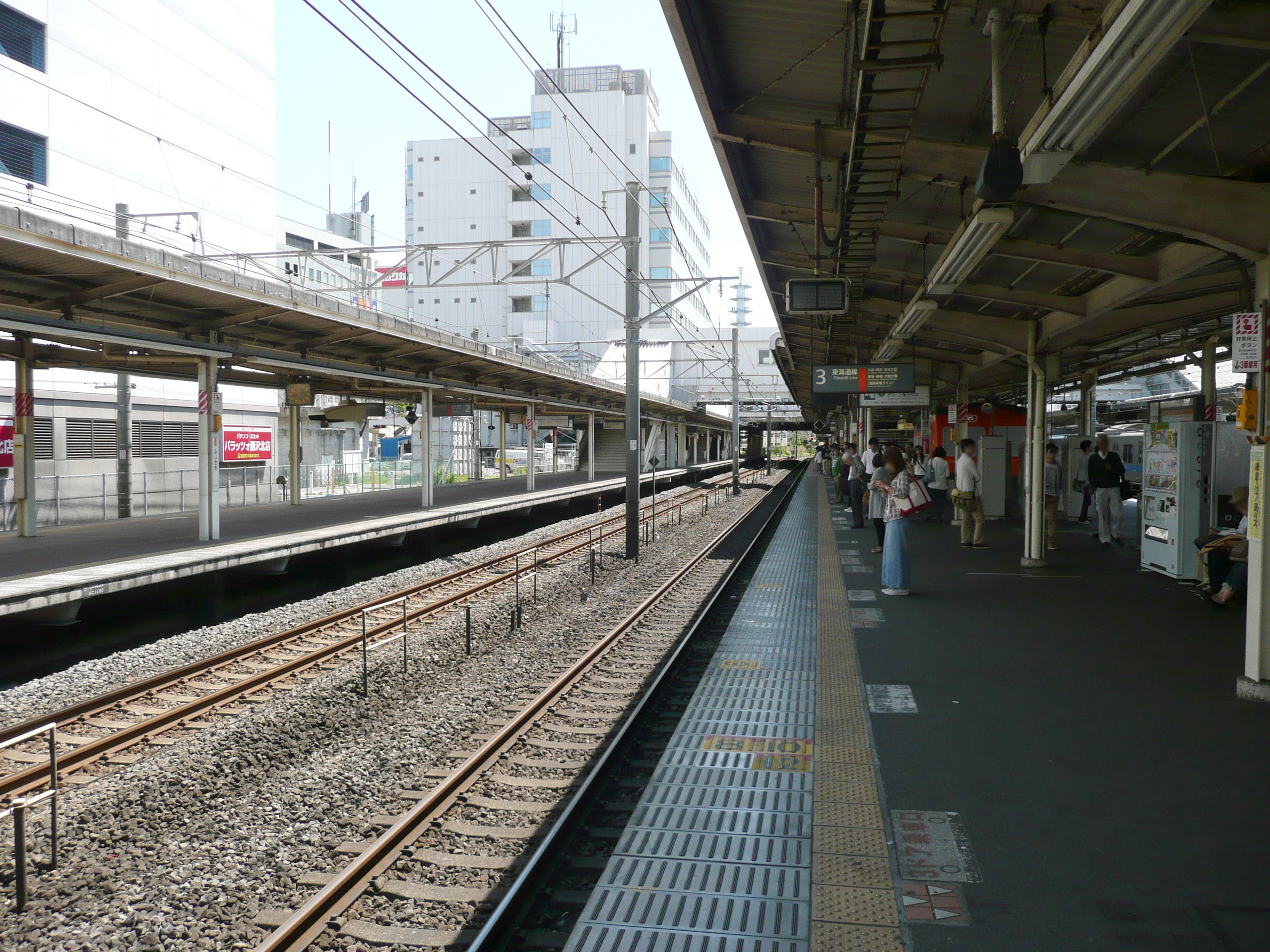 Platforms of JR East Fujisawa Station